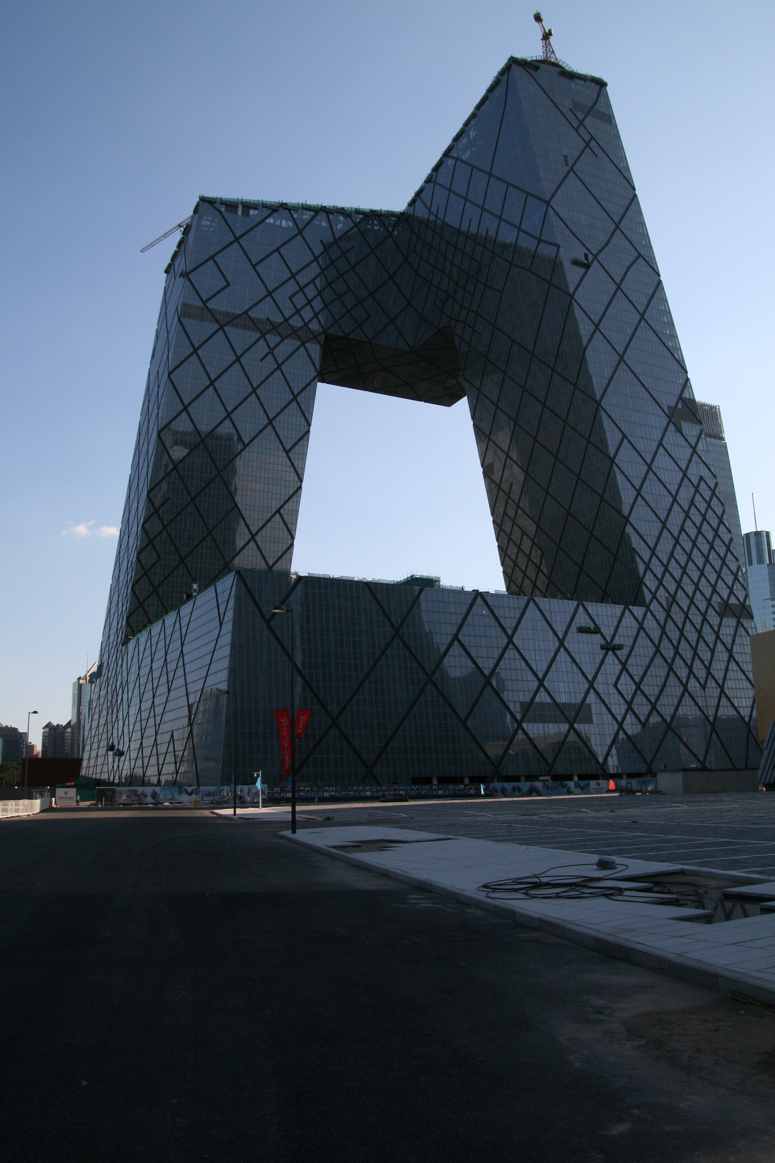 Beijing's CCTV Building